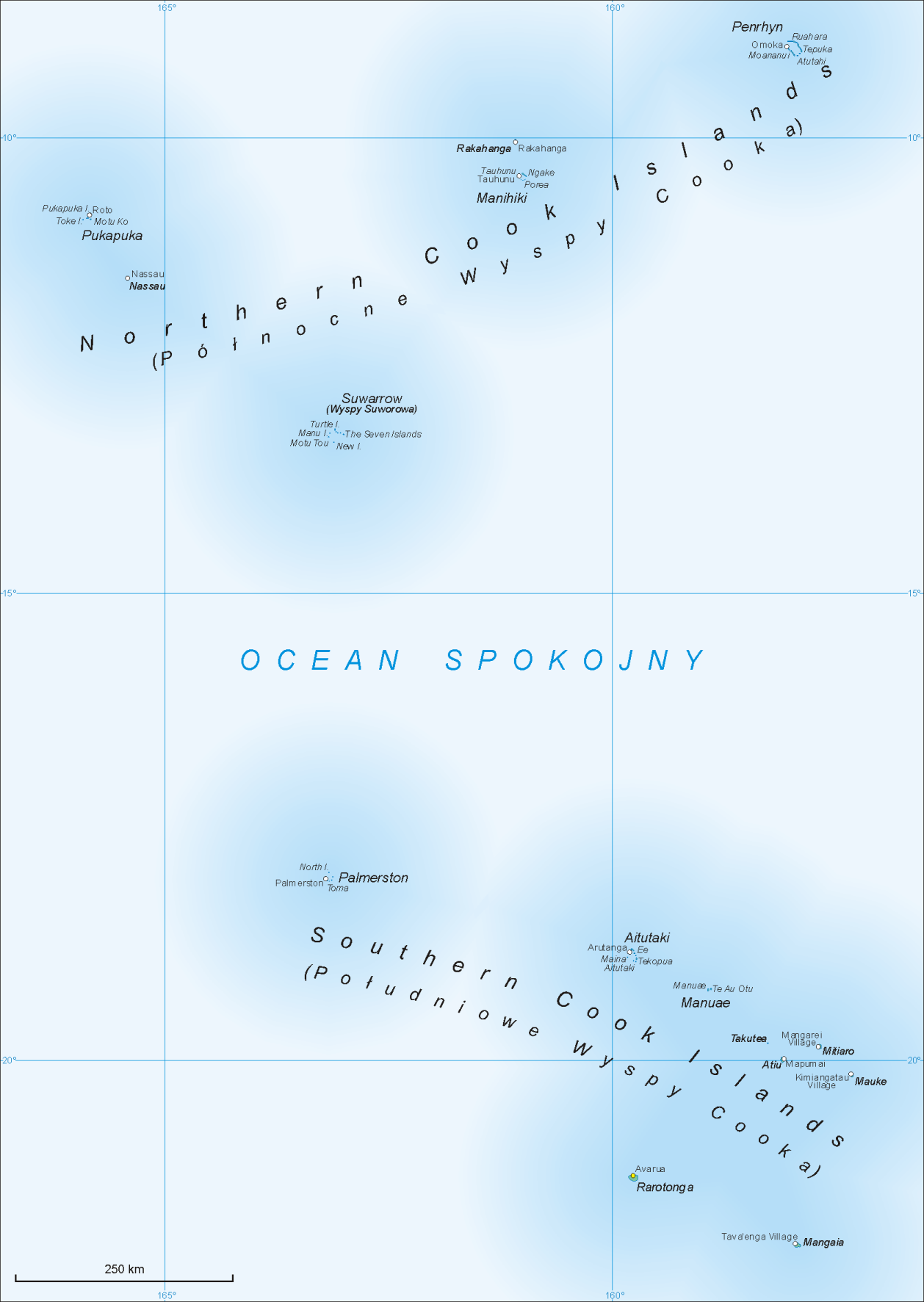 Map of the Cook Islands (labels in Polish)